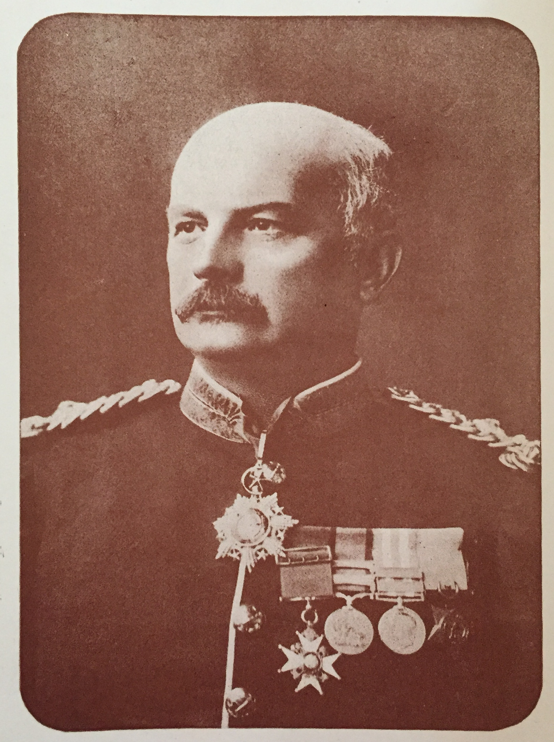 Portrait taken in 1892